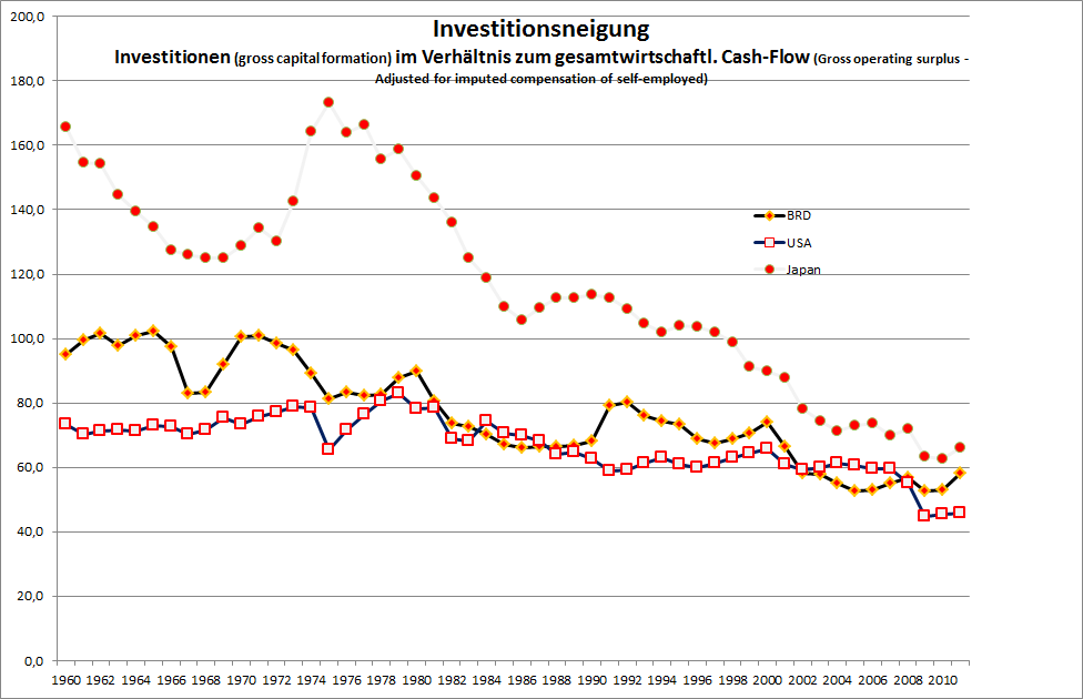 gross capital formation as percentage of gross operating surplus